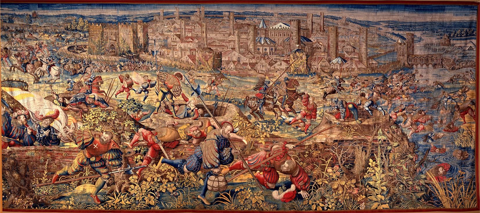 manufactured in Bruxelles